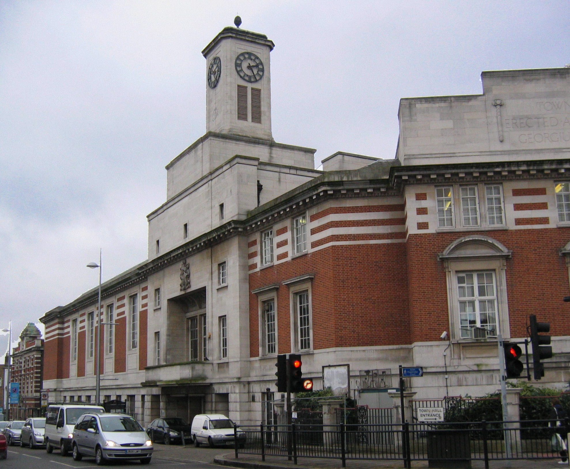 Photo of Acton Town Hall taken by Patche99z, February 2007, specially to replace existing gallery photo which has rather too much foreground clutter. This image was originally on Wikipedia, and is being moved to the Commons by its author, under the same name.